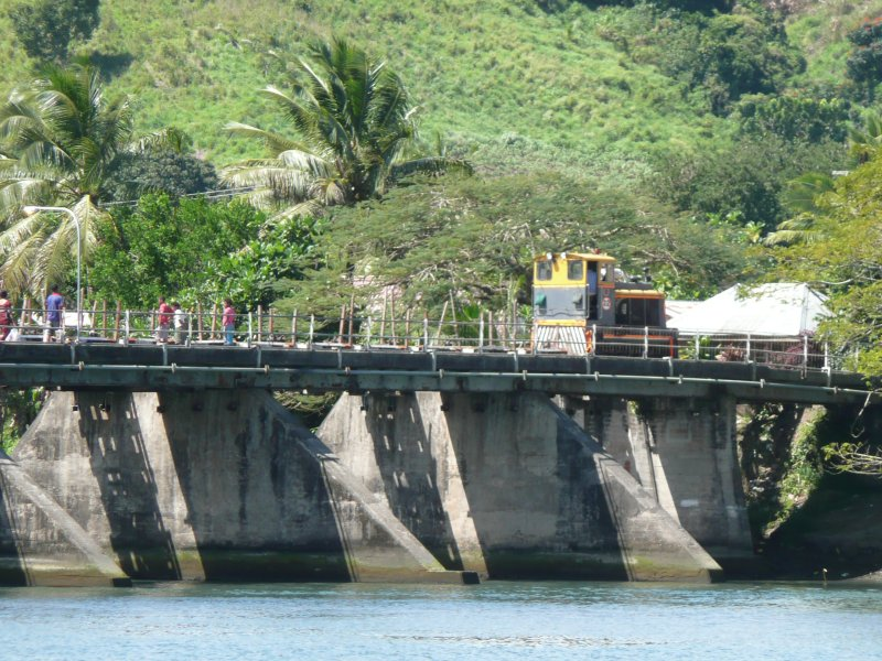 Fiji Sugar Corporation loco no 22 crosses Sigatoka bridge with a long train of empties